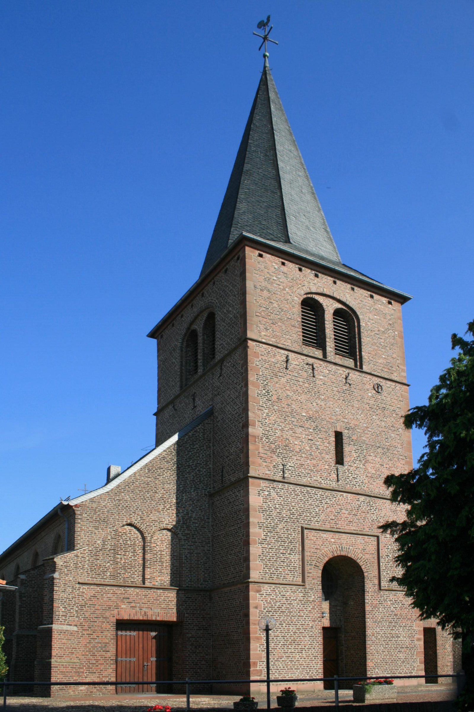 Cultural heritage monument No. 8 in Linnich, tower of 1750, Brick Gothic stepped hall of 15th or early 16th century